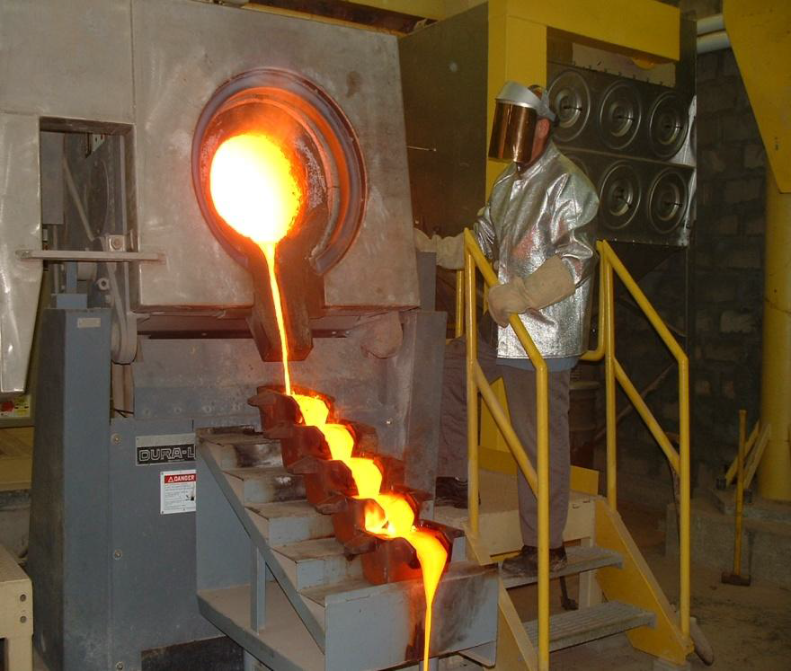 Melted gold at the Rosebel Mine in Suriname